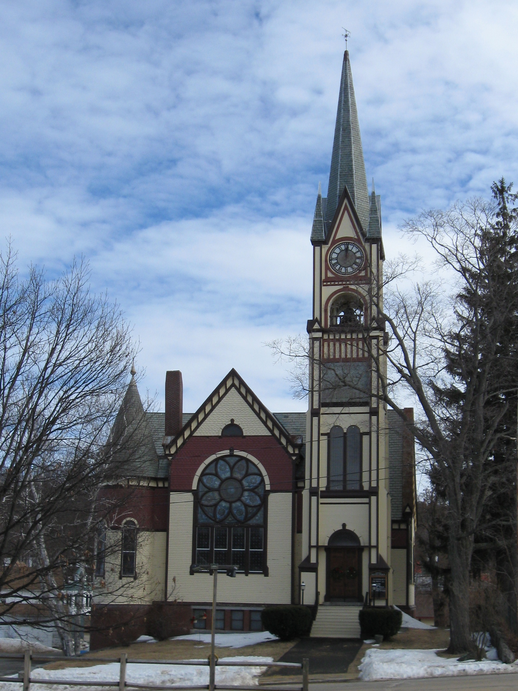 The United Baptist Church of Lakeport in Laconia, New Hampshire. The Late Victorian Gothic Revival church was built in 1891, and is on the National Register of Historic Places.